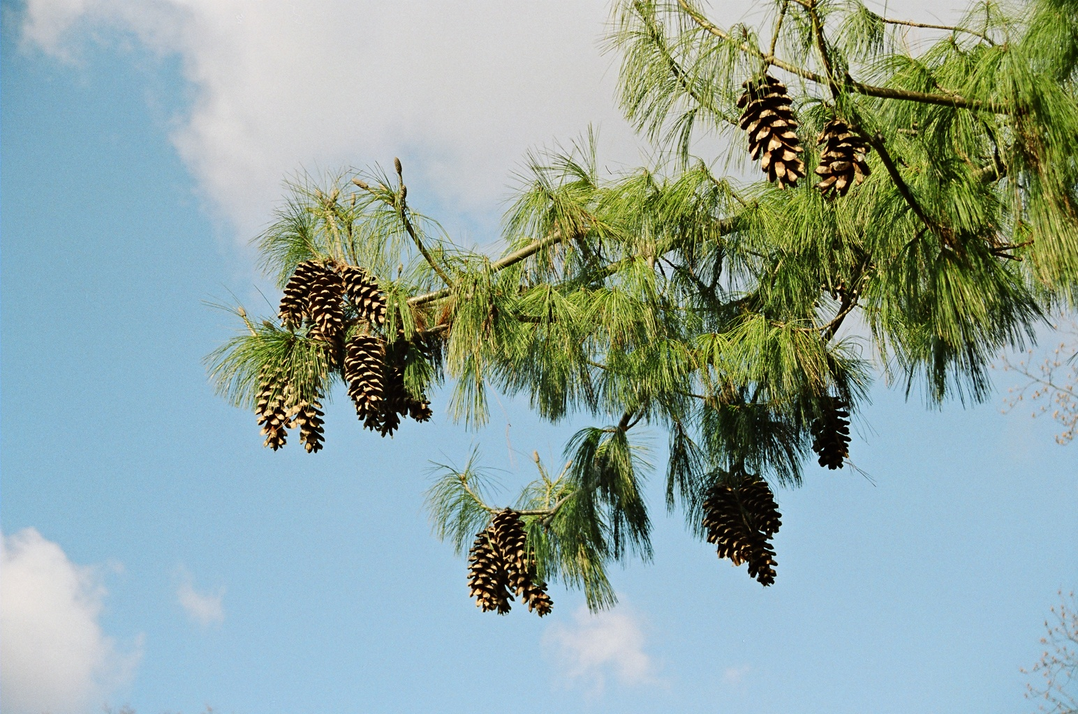 A Blue Pine Pinus wallichiana found in Kew gardens